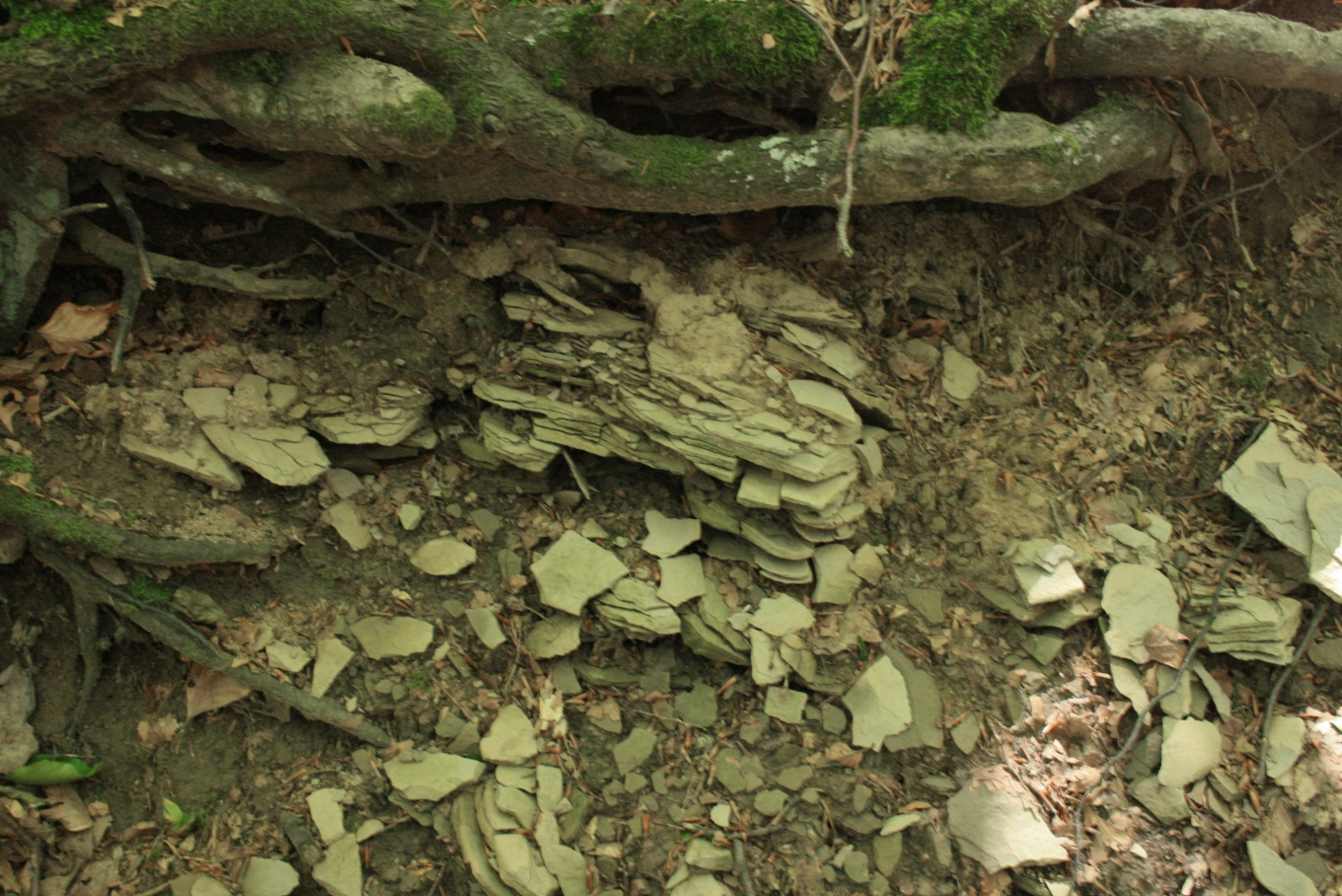 On mount Falterona you find the typical soil over limestone.